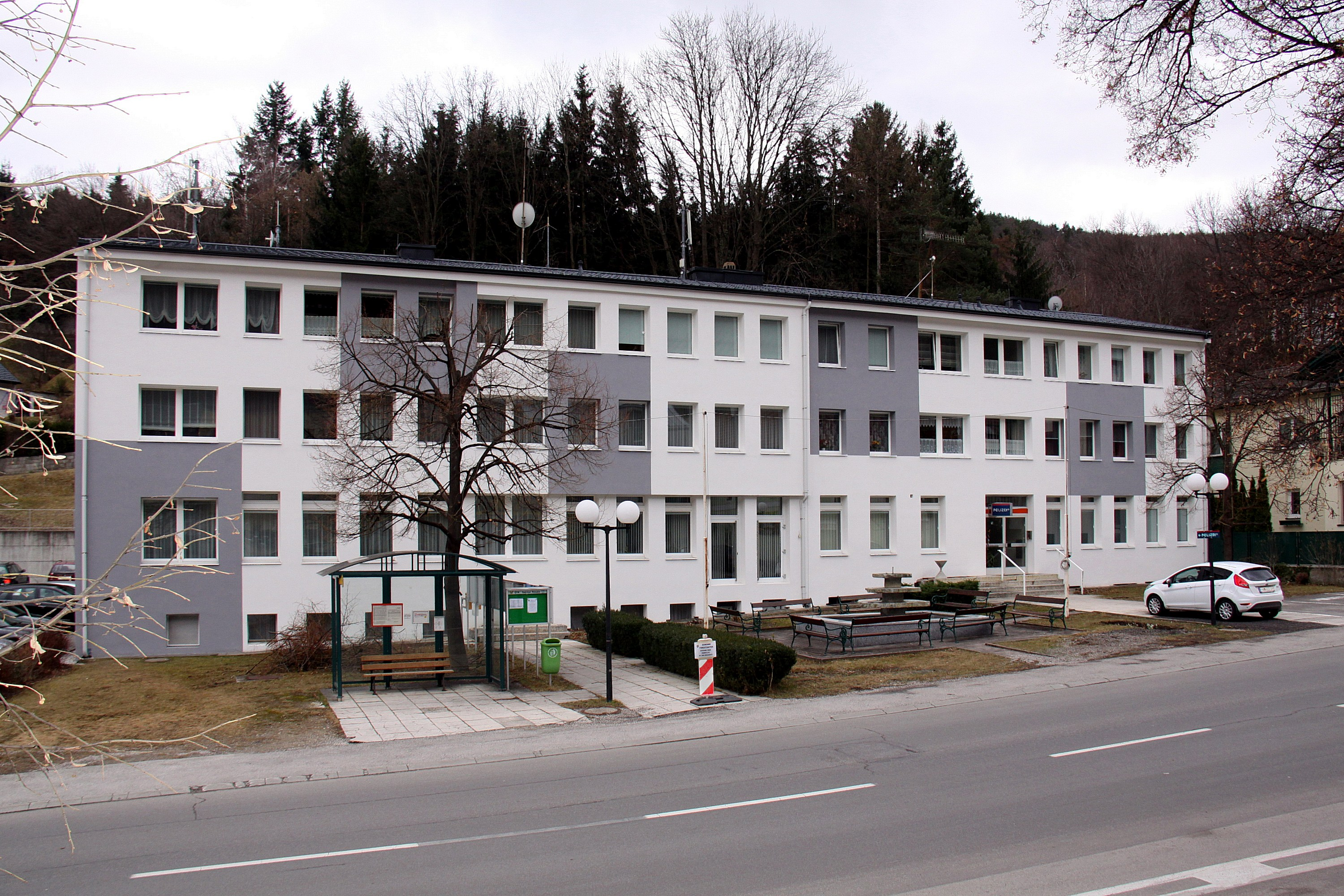 Municipal office - Forchtenstein